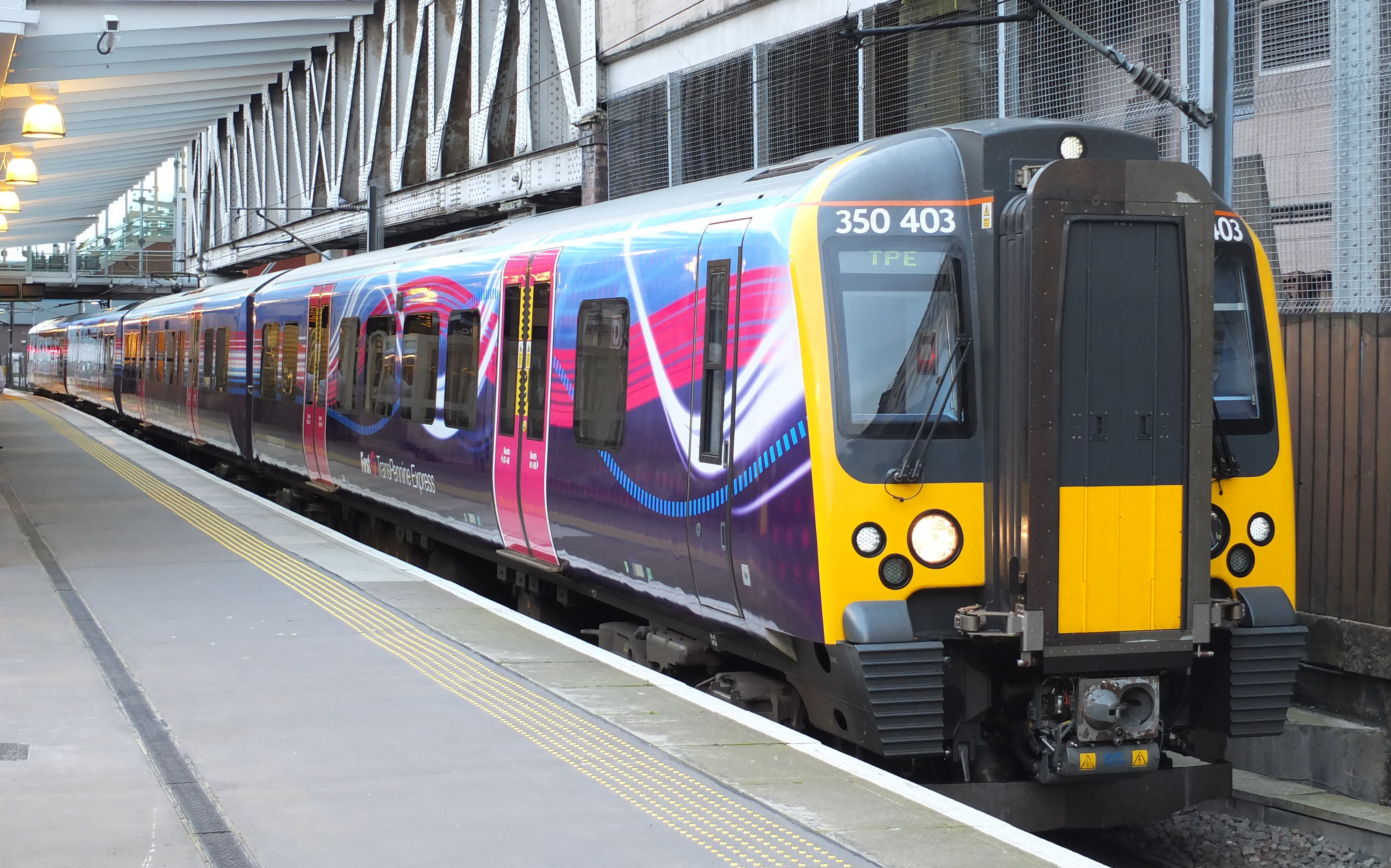 First TransPennine Express Class 350 403 at Waverley Station (Edinburgh).